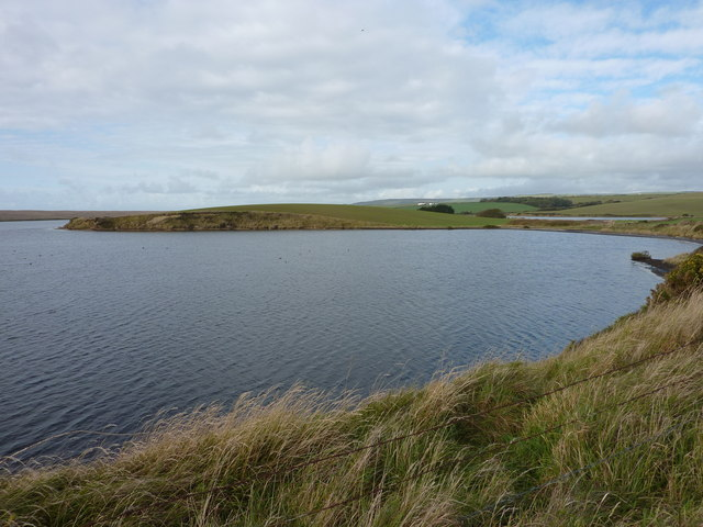 Herbury and Gore Cove Herbury is a small peninsula jutting out into The Fleet. Taken from the South West Coast Path near to Moonfleet Manor Hotel.